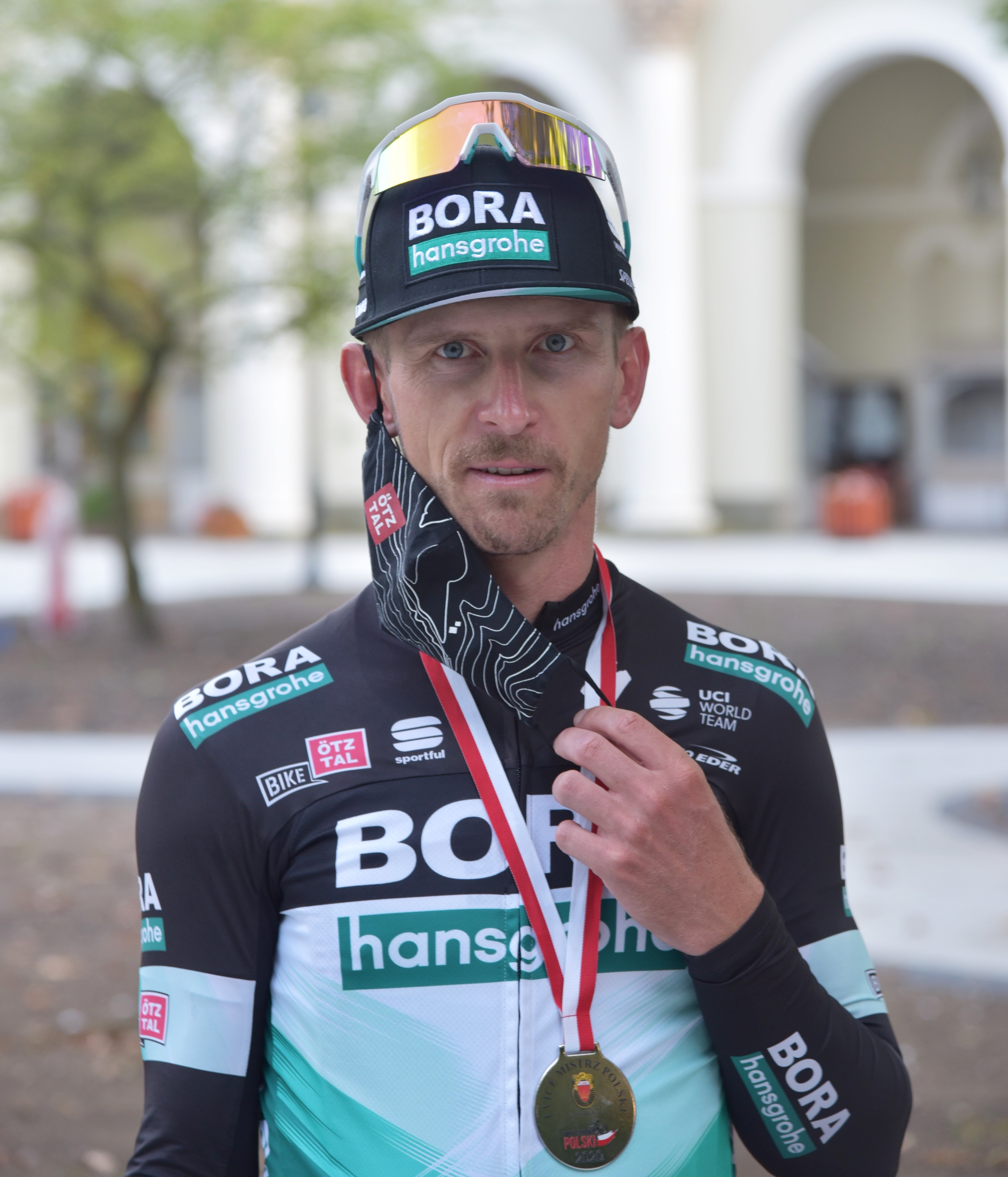 Maciej Bodnar - Polish road cyclist, Champion and Polish representative, Olympian, European runner-up. Polish Championship 2020 - runner-up, Busko-Zdrój, 20/08/2020